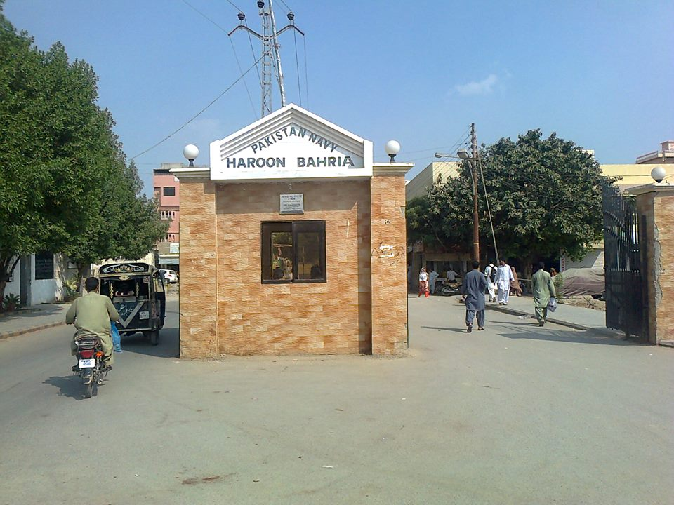 Main Gate (Entrance) of Naval Colony (sometimes called H.B.C.H.S.)